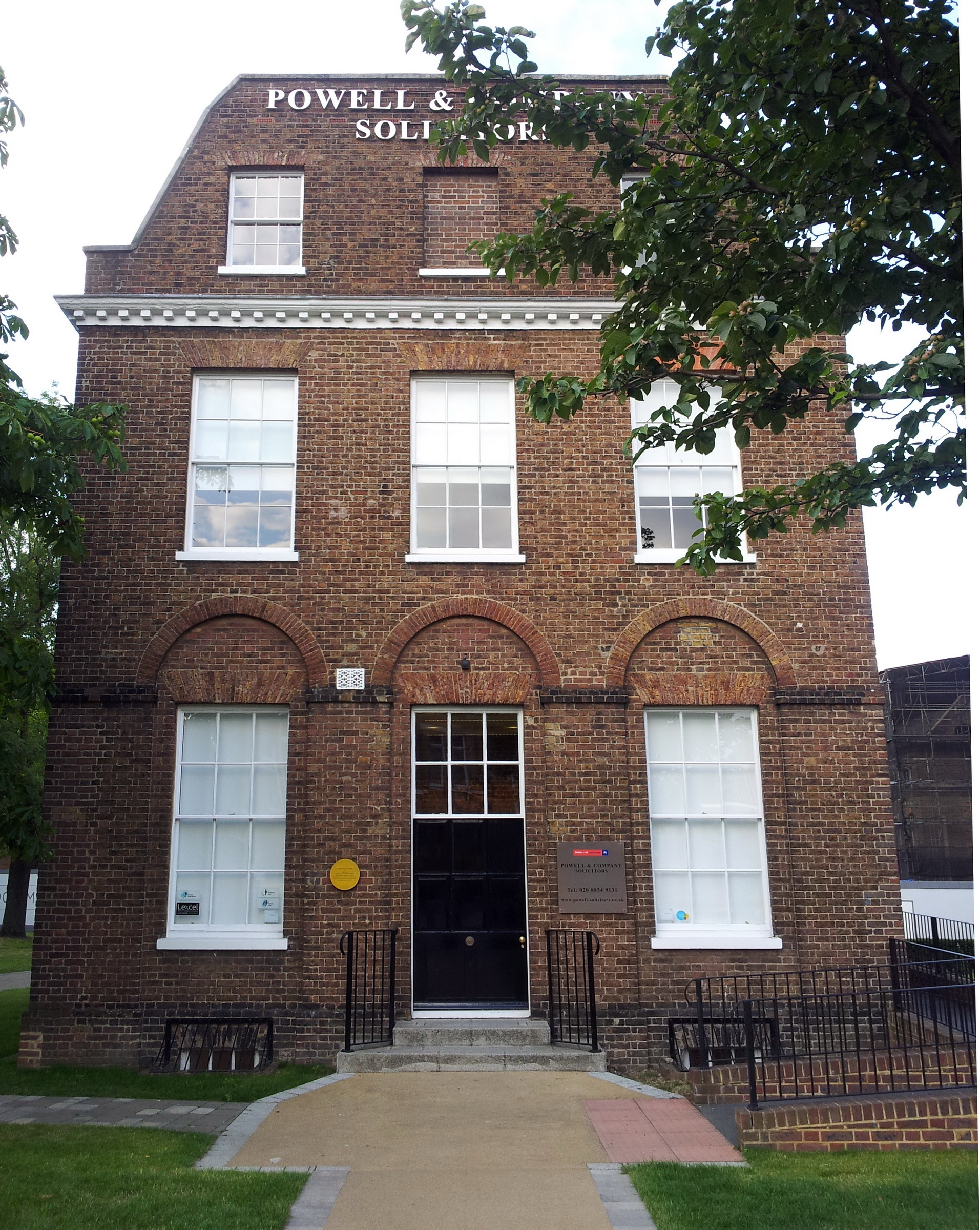 View from the south of Verbruggen House in the Royal Arsenal, Woolwich, South East London.